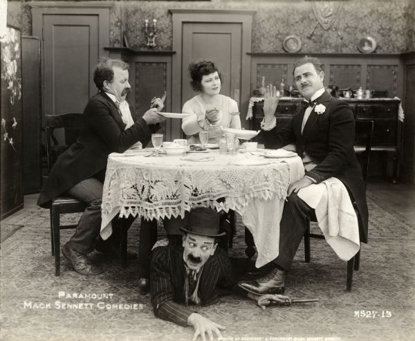 Mary Thurman offers a spoonful of peas to Ford Sterling (at right, dressed as a dandy) while Chester Conklin begs for more on the left. Hidden under the table is Jack Cooper with a long barreled revolver in this scene still for the 1918 Mack Sennett silent comedy Beware of Boarders.